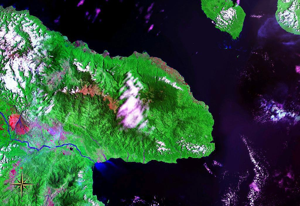 Huon Peninsula in Papua New Guinea. Satellite view.